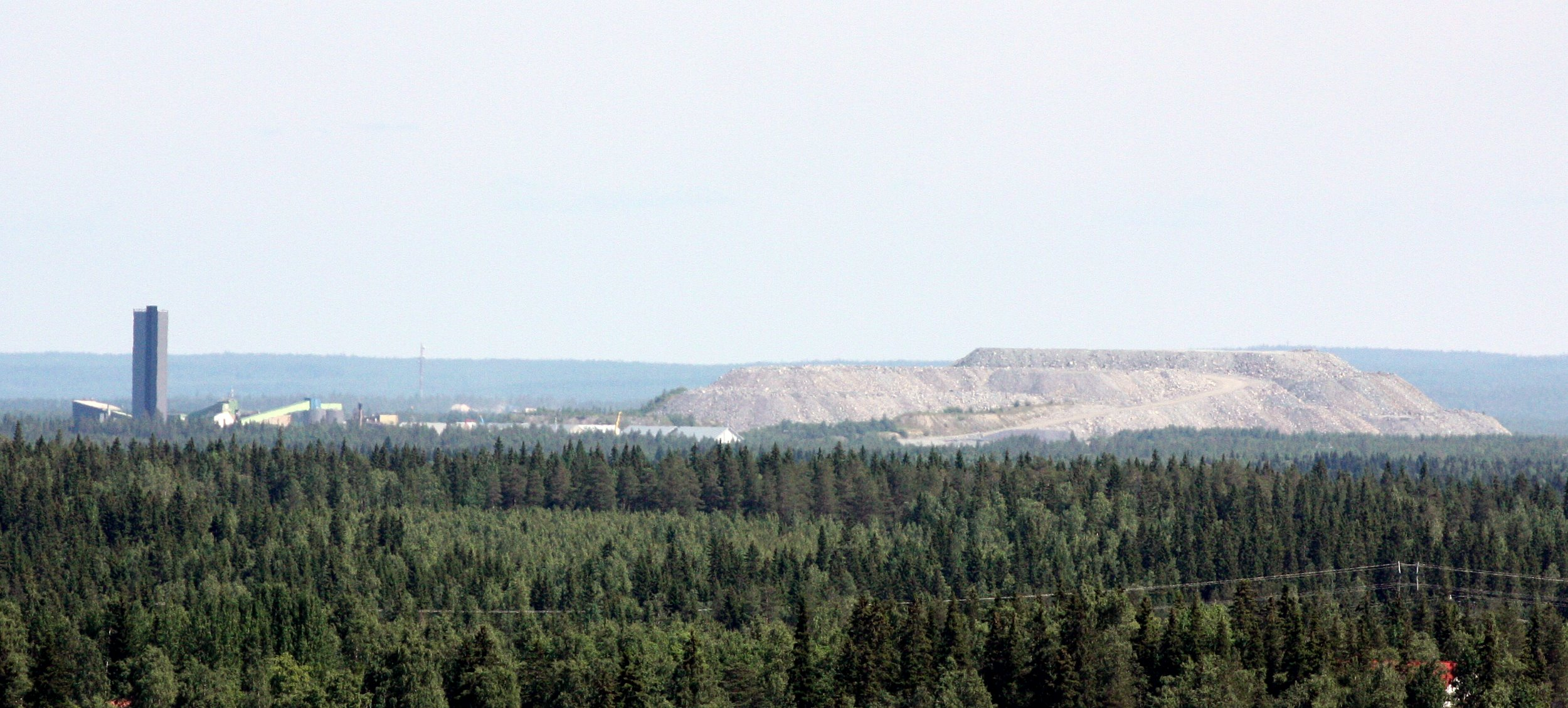 Kemi Chromite and Ferrochrome Mine seen from the top of the Kemi Townhall.